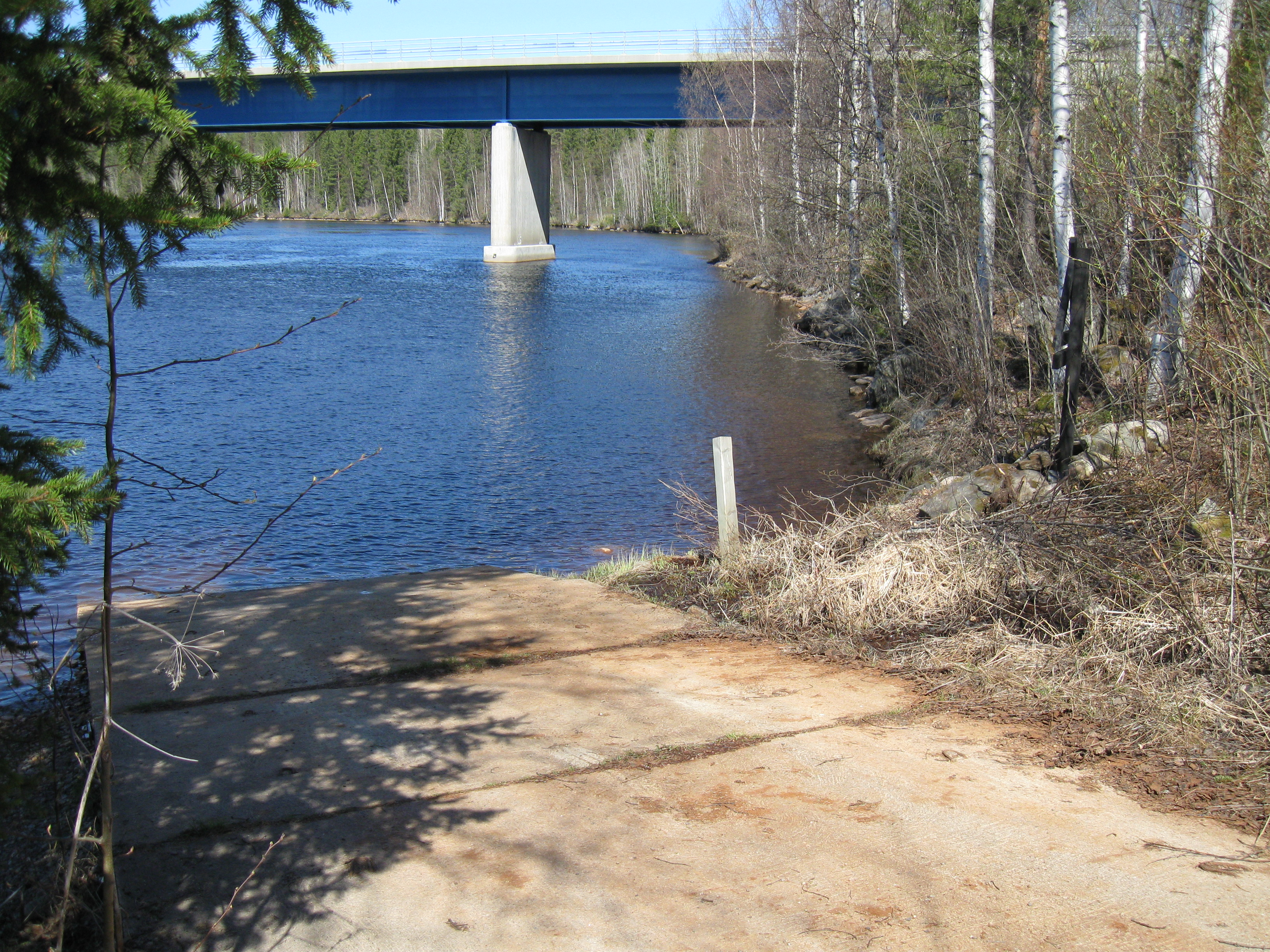 A smallboat slipway at the Oulujoki river in Utajärvi, Finland.